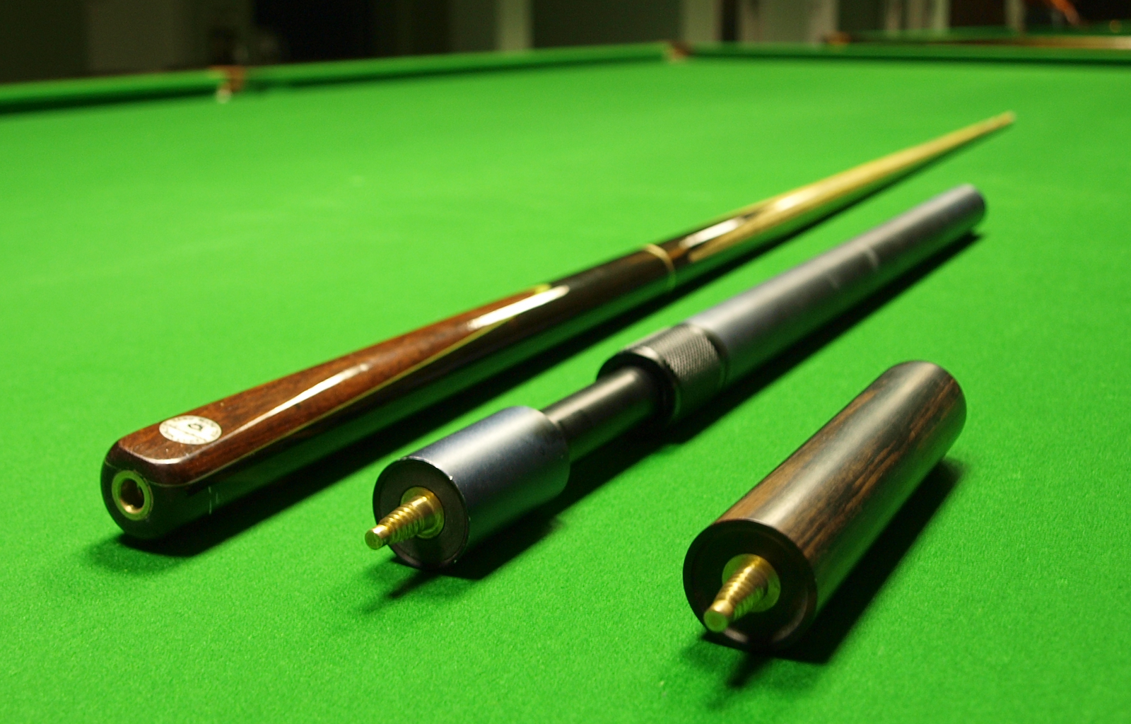 Snooker cue with two different butt extensions.